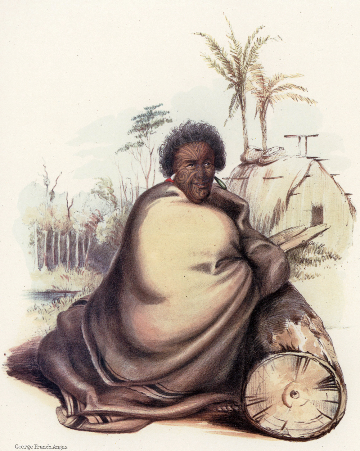 Pōtatau Te Wherowhero, Waikato chief, Taken at the Marae of the Great Waikato people the Ngāti Māhanga tribe of Te Papa o Rotu. He became the first Māori king in 1858. He is drawn seated beside a log, wrapped in a blanket observing the cultivations happening in the gardens, in traditional style taken in Whatawhata in 1844.